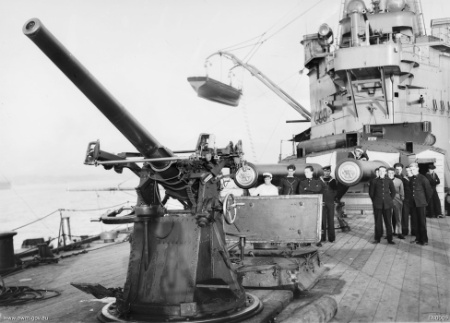 The anti aircraft gun on the after deck of the battlecruiser HMAS Australia, with a group of seamen centre right. The gun is a QF 3 inch 20 cwt. Identified left to right: (seated beside 12 inch gun, rear): Able Seaman Norman Yeend of Brunswick, Vic. Standing: Stoker Christopher George Walpole of Paddington, NSW; Stoker A Rees; Bandsman G H Cressland; unidentified; Able Seaman Lewis Bartholomew Moy of Jamestown, SA (hidden); Bandsman Charles Albert Killick of Holloway, England; Stoker William Aubrey Ashton of Liverpool, England; Ordinary Telegraphist Herman Leslie Gabbe of Warragul, Vic; Petty Officer Telegraphist Ernest Esmond Bulmer of Annandale, NSW (partly hidden); Bandsman Edward Atkey of Southsea, England; Boy First Class William Wedlock Fenwick of Adelaide, SA. Location : Scotland, Firth of Forth